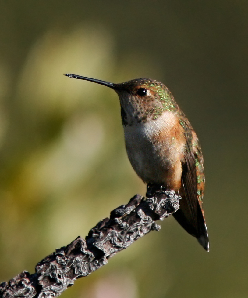 Rufous Hummingbird (female)